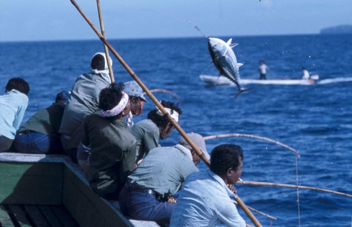 Fishing tuna at sea near Tulehu